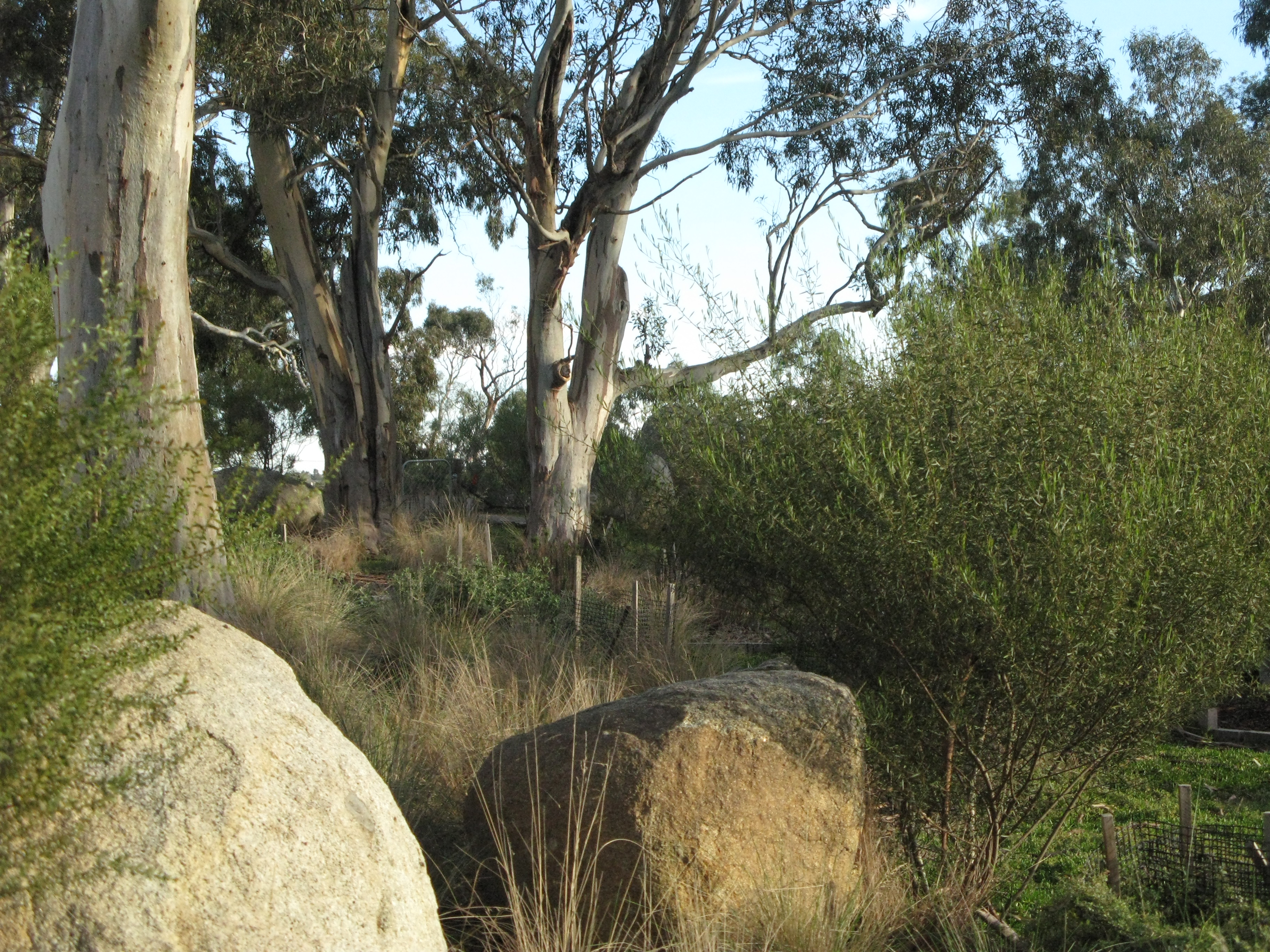 Revegetation in Westerfolds Park in July 2009, planted around 2004. Photo taken by Nick carson in July 2009.